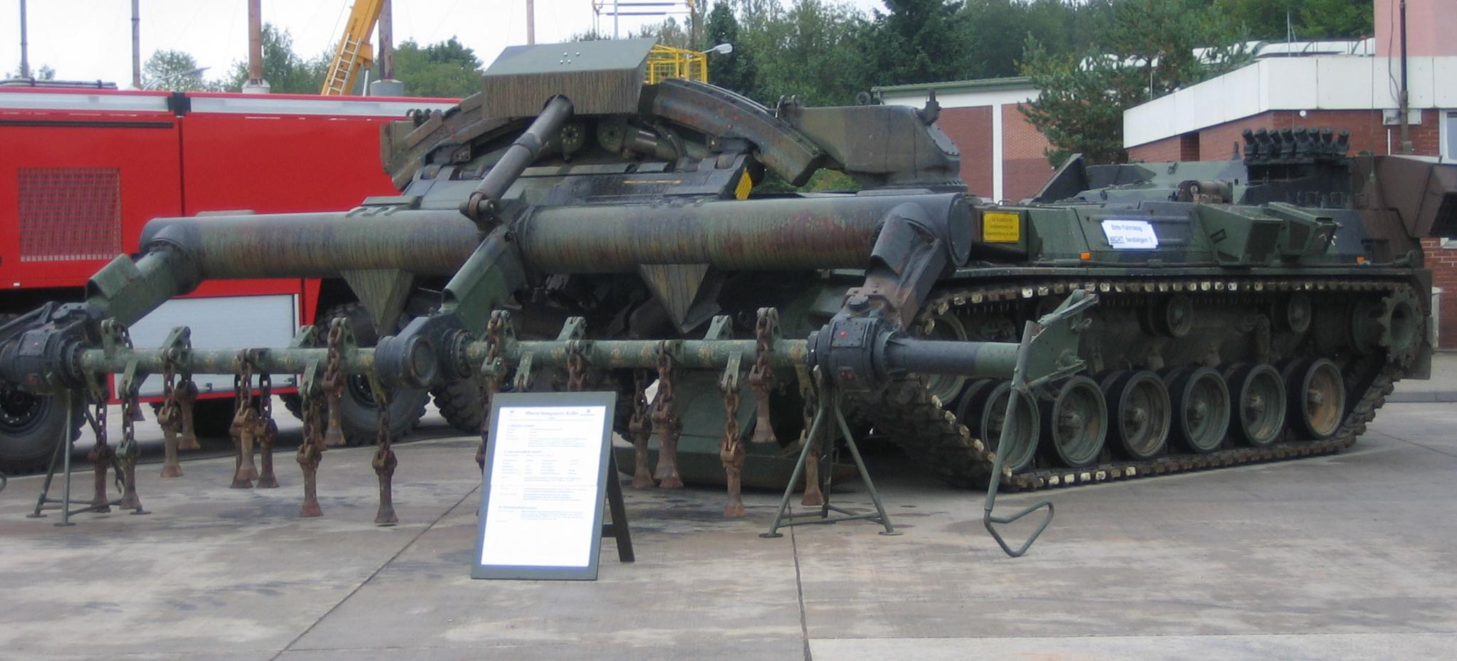 Mine Clearing System KEILER Day of the open Door Wehrtechnischen Dienststelle 41 (WTD41) Trier 2005